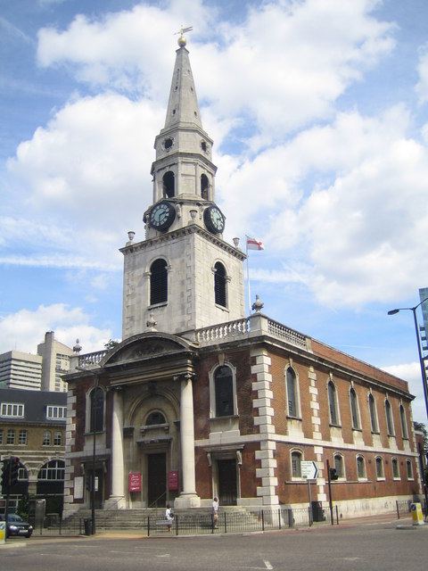 St George the Martyr parish church, Borough High Street, London SE1, seen from the west